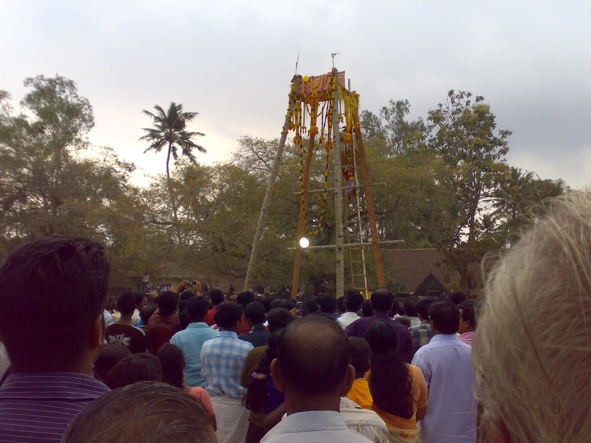 Sarkara Devi Temple Photo Taken during Kaliyoot festival in 2010 March 05.